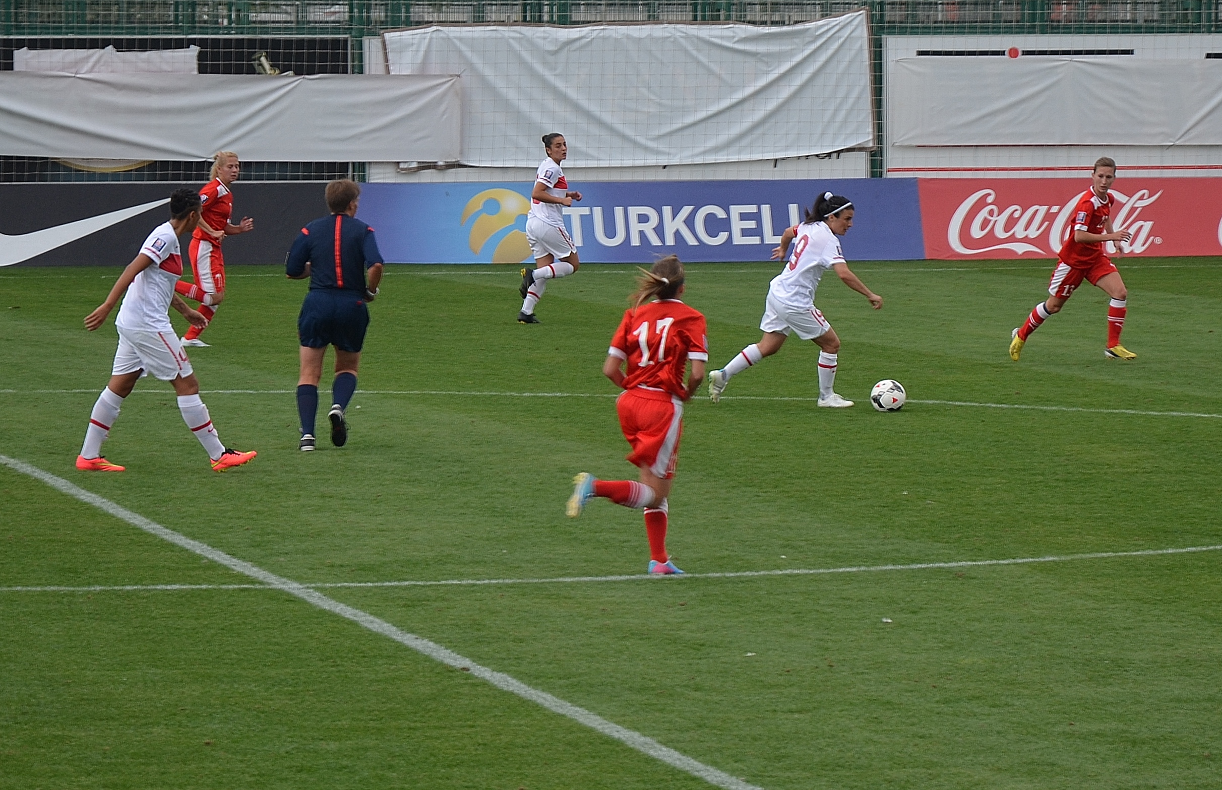 2015 FIFA Women's World Cup qualification – UEFA Group 6 match Turkey vs Belarus on September 17, 2014